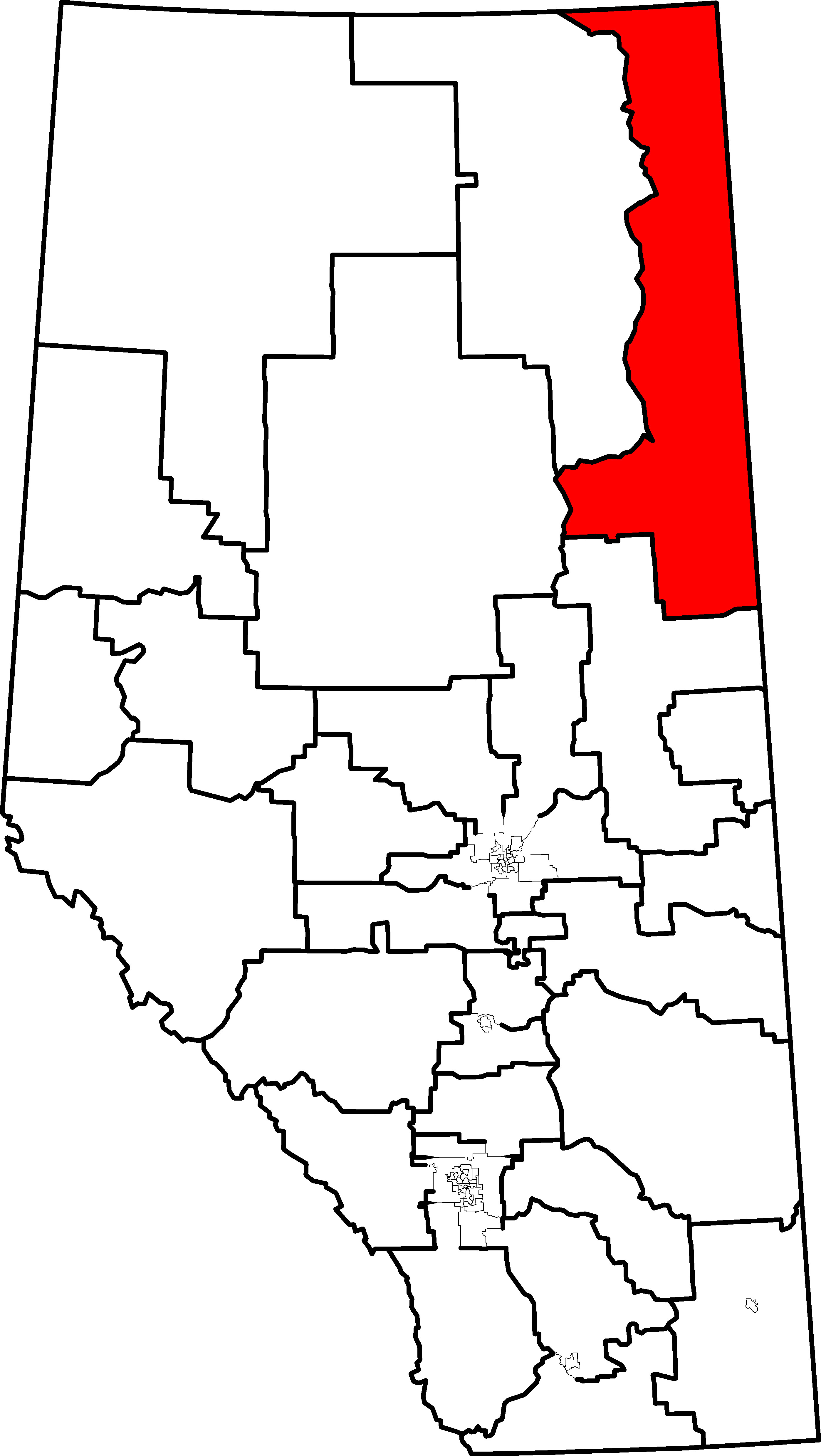 A map of the Alberta provincial electoral districts, effective 2010. Fort McMurray-Conklin is highlighted in red.